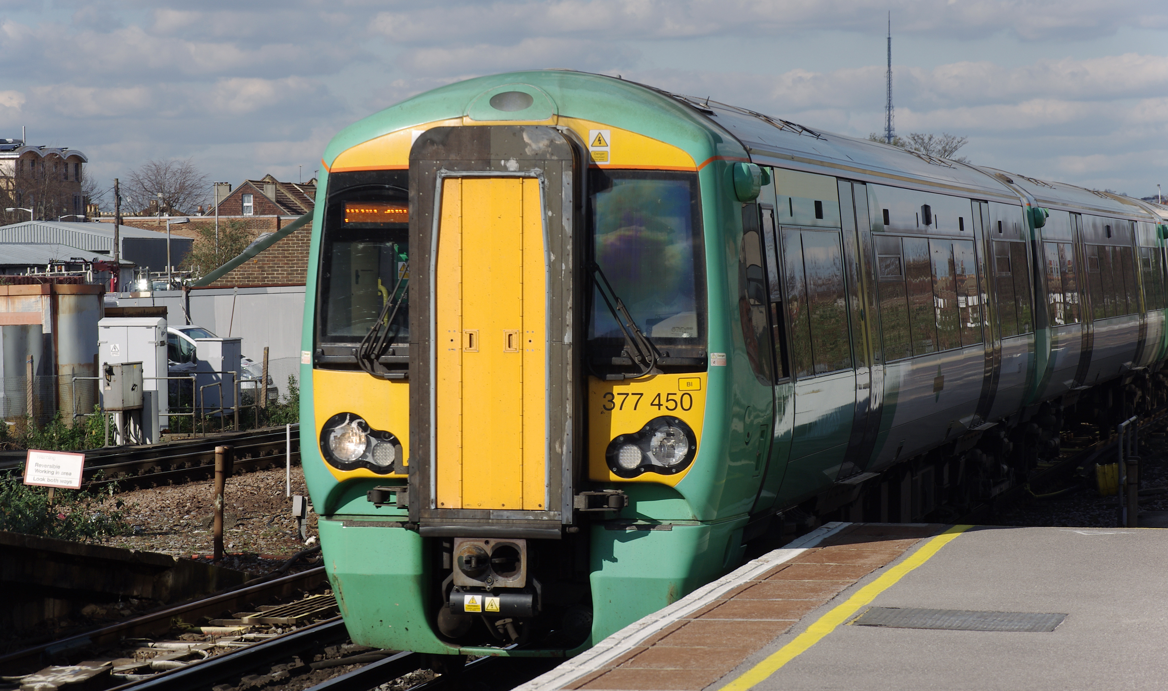 Southern Class 377 "Electrostar" EMU 377450 arrives at East Croydon with a service to Littlehampton.